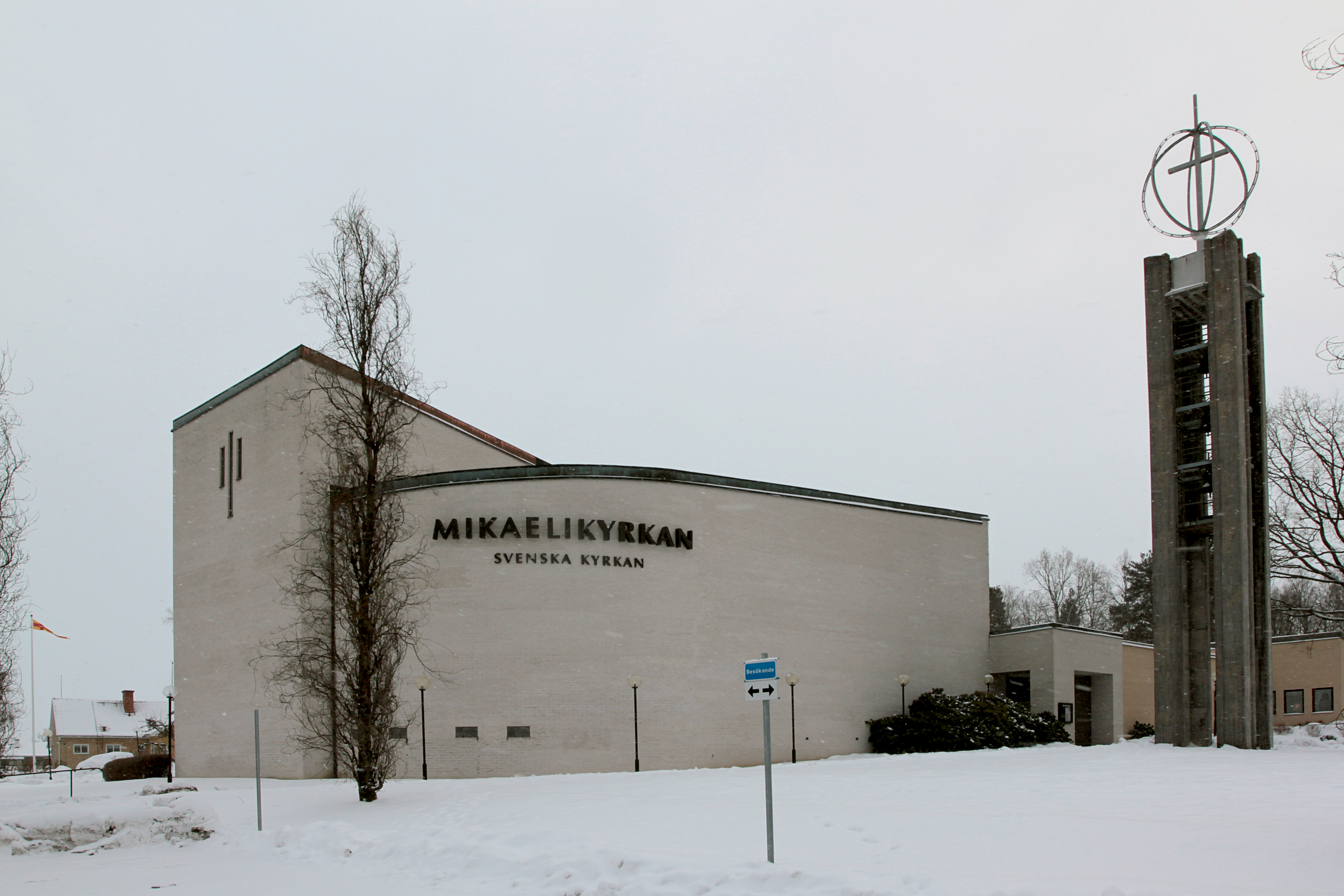 Church Mikaelikyrkan, Västerås, Sweden, in snowfall.